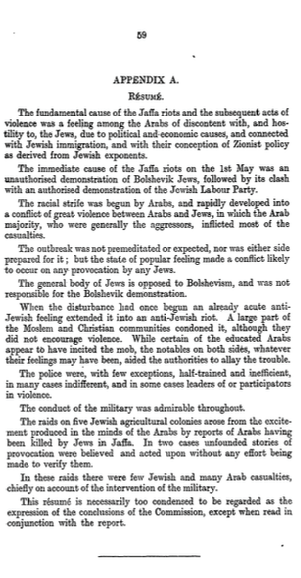 Haycraft Commission of Inquiry in Palestine Cmd 1540 Summary Conclusions